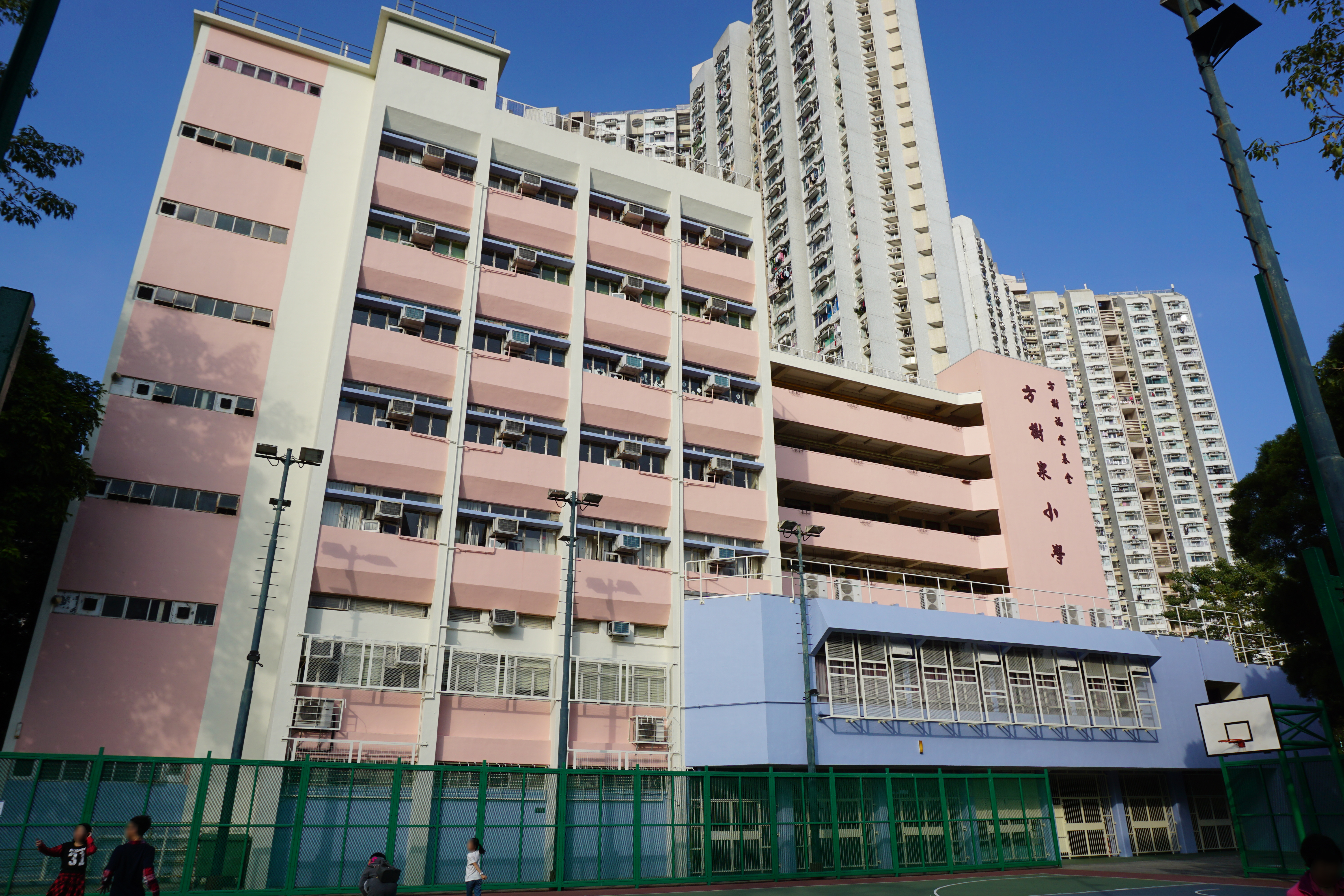 Fong Shu Fook Tong Foundation Fong Shu Chuen Primary School in Fanling, Hong Kong.